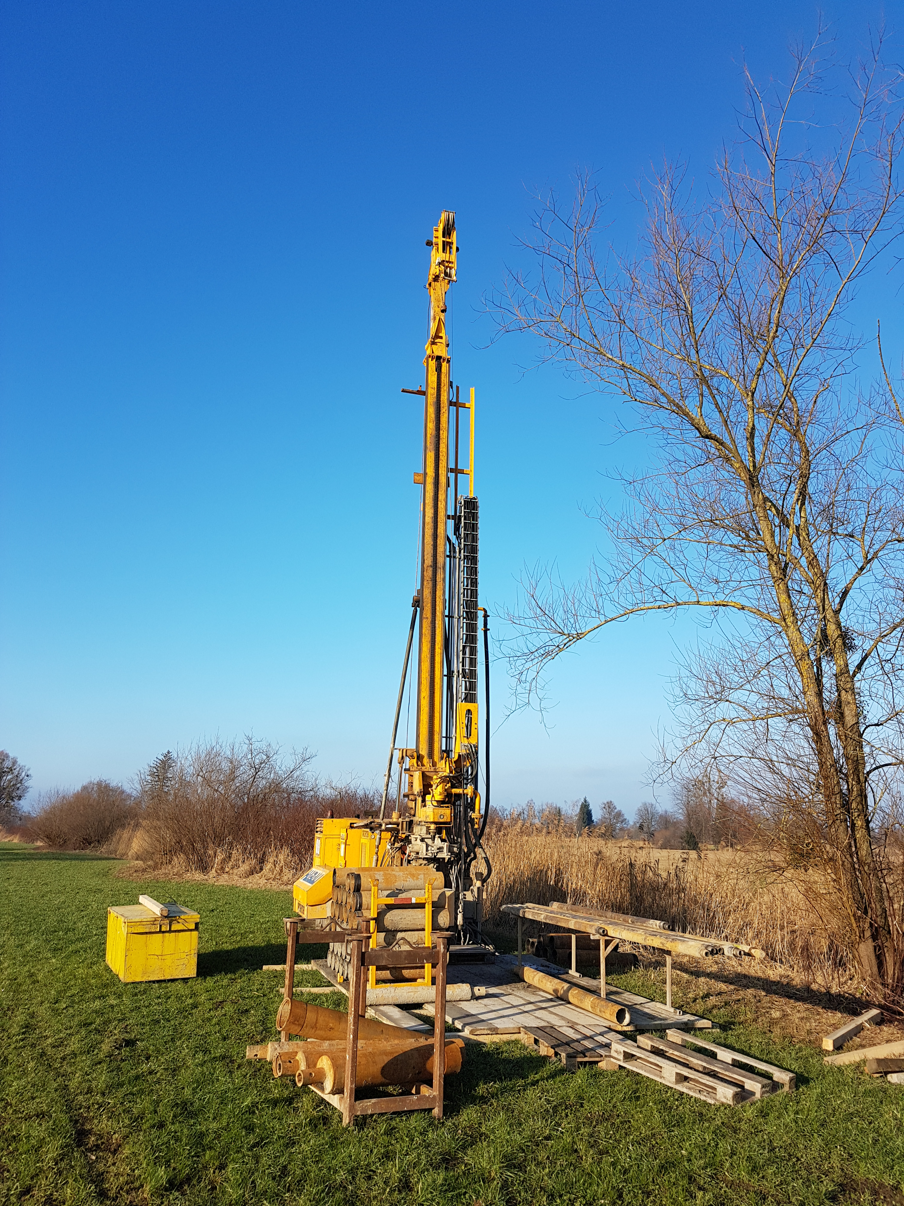 Test drilling for the S 18 Bodenseeschnellstrasse (Highway) in the Dornbirner Ried with a Wirth pile drilling machine B1A on a crawler undercarriage from Gemmo (Italy, Noventa Vicentina).